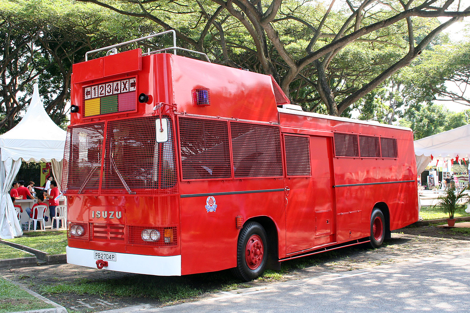 PTU anti-riot vehicle on display at Marina South, Singapore as part of the National Day Parade 2005. Location: Marina South, Singapore